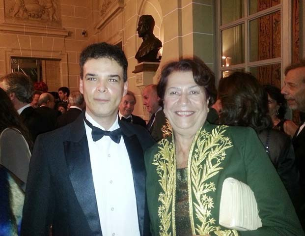 ANA MARIA MACHADO E MARCELO MORAES CAETANO